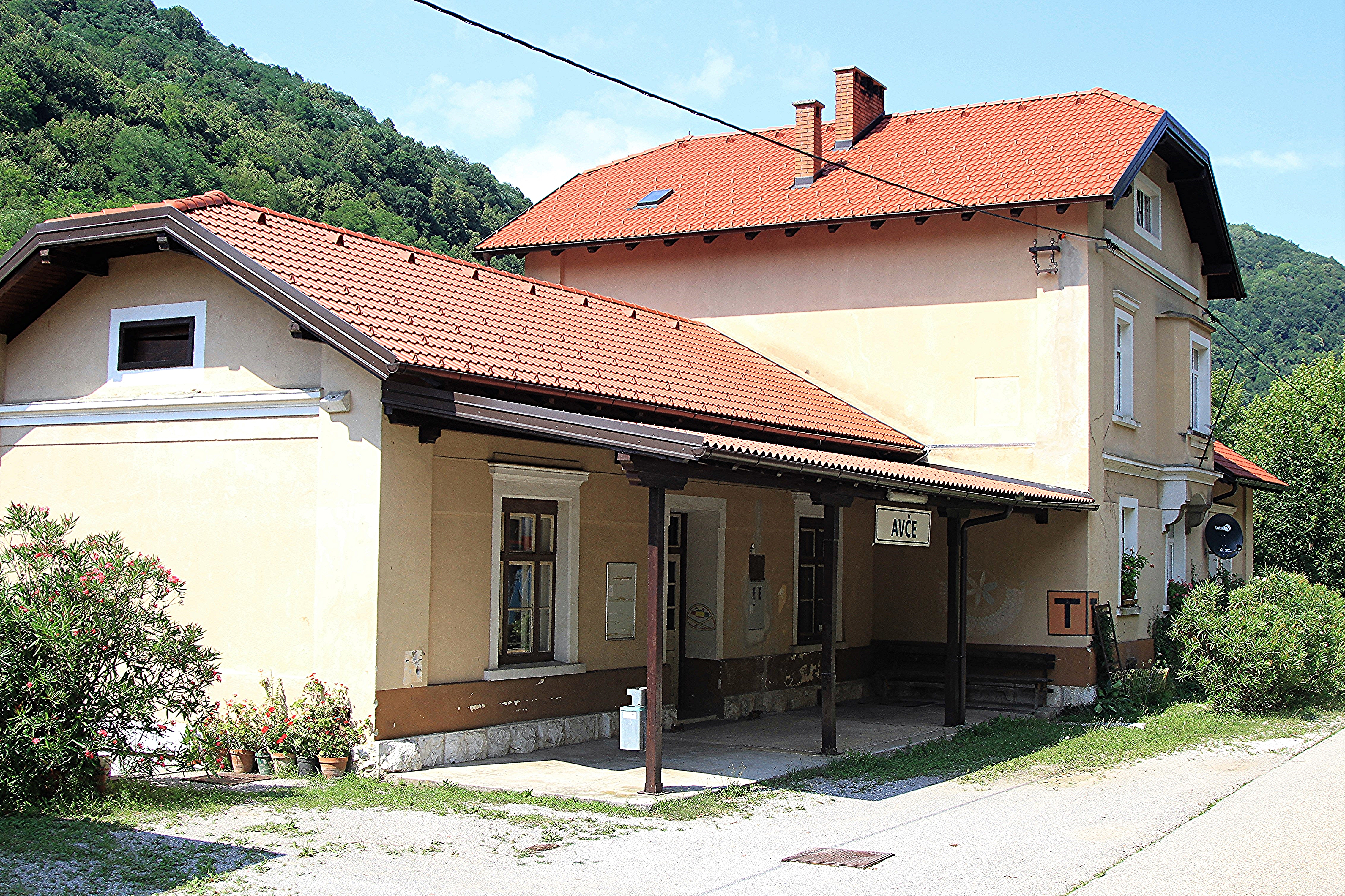 Avce Station Bohinj Railway Slovenia 05-07-2017